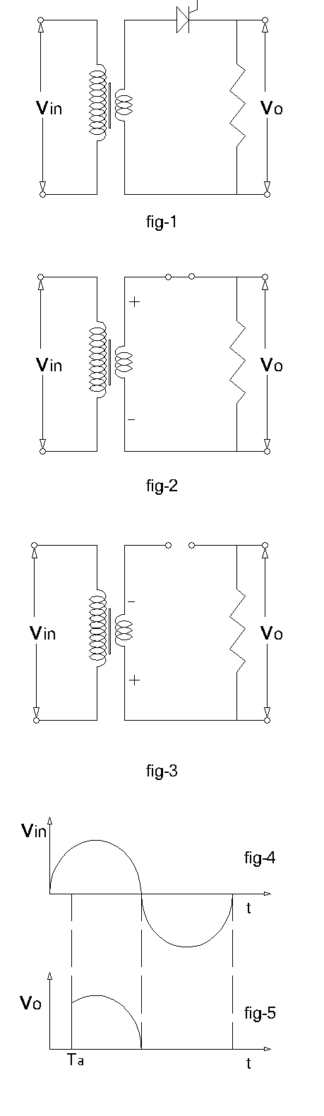 Rectifier